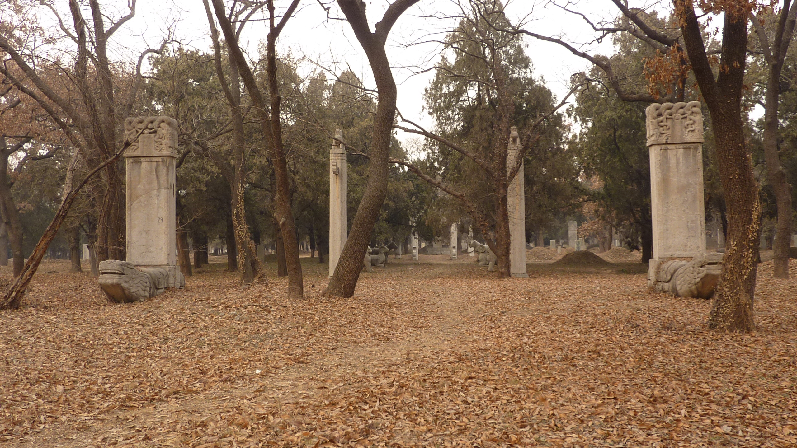 The tomb complex of Kong Yuxu, . in the northern part of the Cemetery of Confucius. Includes a pair of large bixi dragon turtles with inscriptions dated 9 Yongzheng (1731), a pair huabiao pillars, a pair each of cats, rams, and horses, a memorial arch, a pair of human statues, and the stele in front of the grave mound. As usual, the spirit way runs north to south, with the turtles and steles facing south, and the other animals and men facing each otehr across the path.